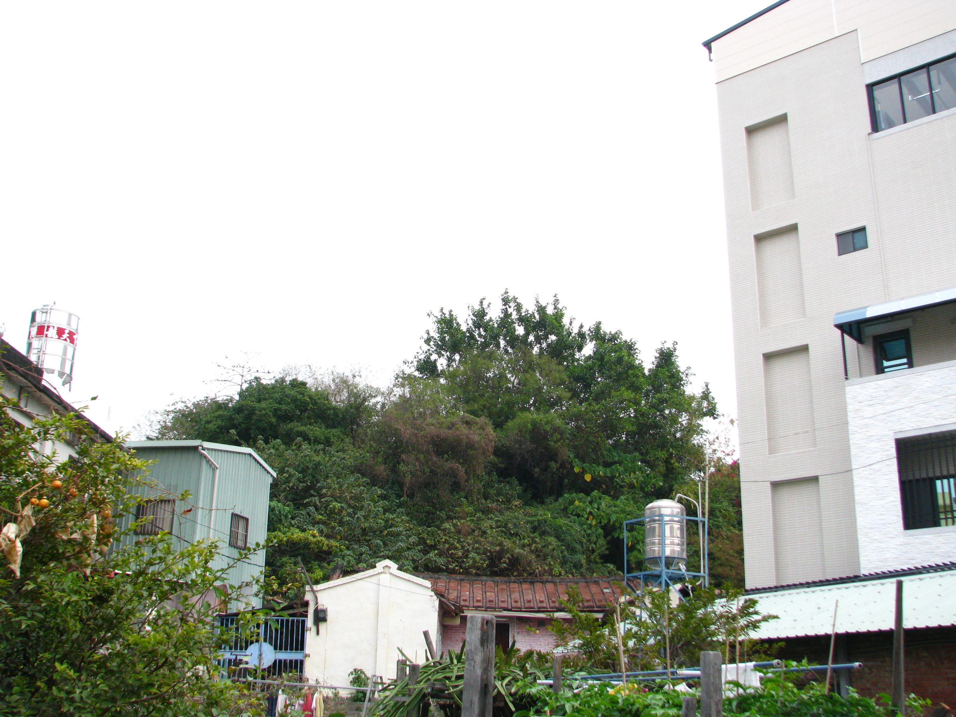 A old place name in Sanmin District, Kaohsiung, Taiwan.